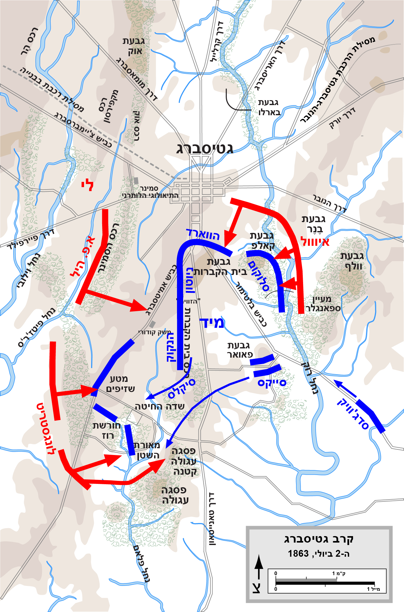 Map of the Battle of Gettysburg of the American Civil War, overview. Drawn in Adobe Illustrator CS5 by Hal Jespersen. Graphic source file is available at